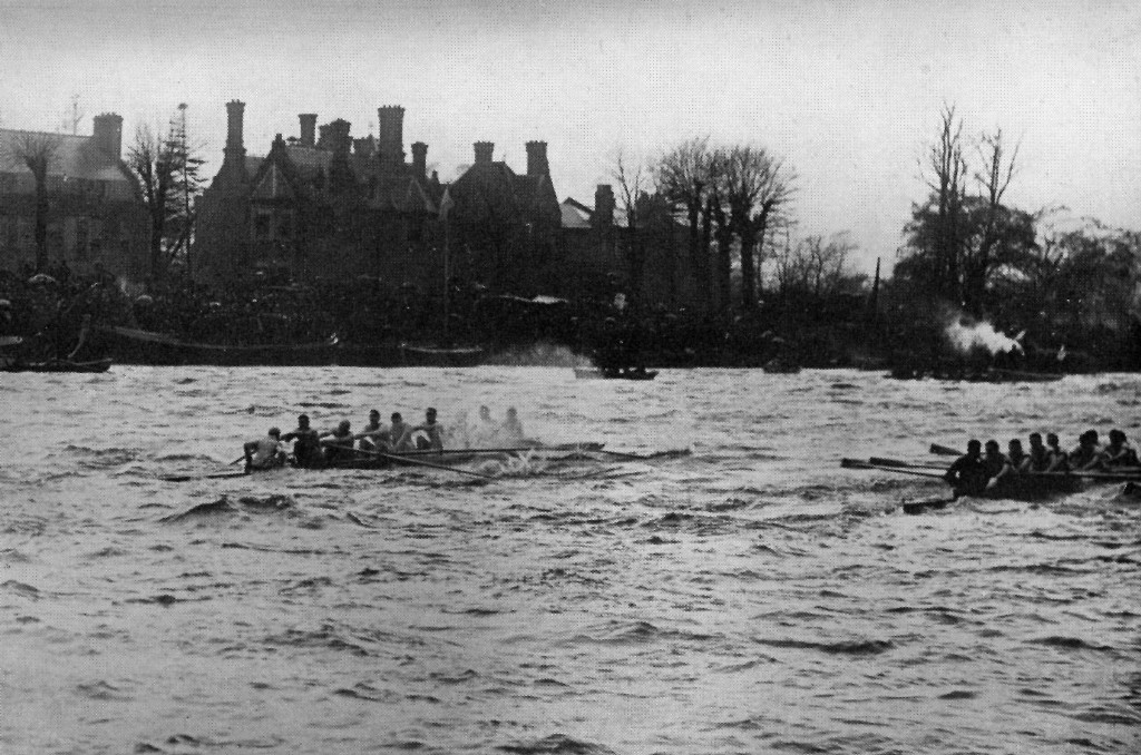 Oxford - Cambridge Boat Race - rough water above Barnes bridge - B&W photo - March 1896